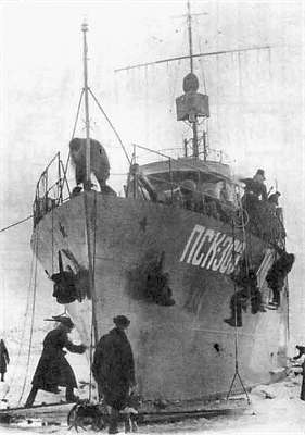 The Soviet project 43 border guard ship PSK-303, later Brilliant.